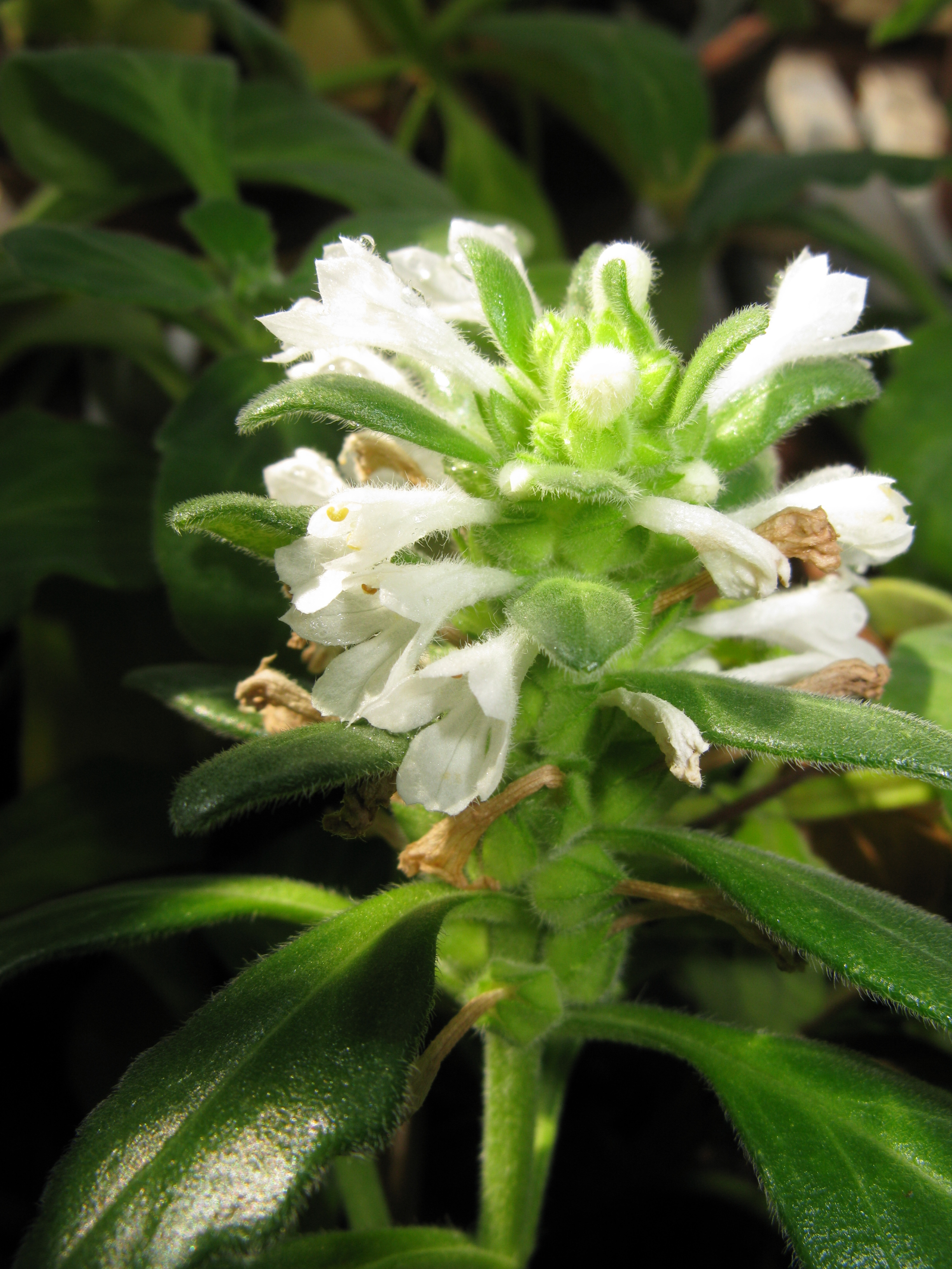 Ajuga boninsimae, Koishikawa, Botanical Gardens, the University of Tokyo, Japan